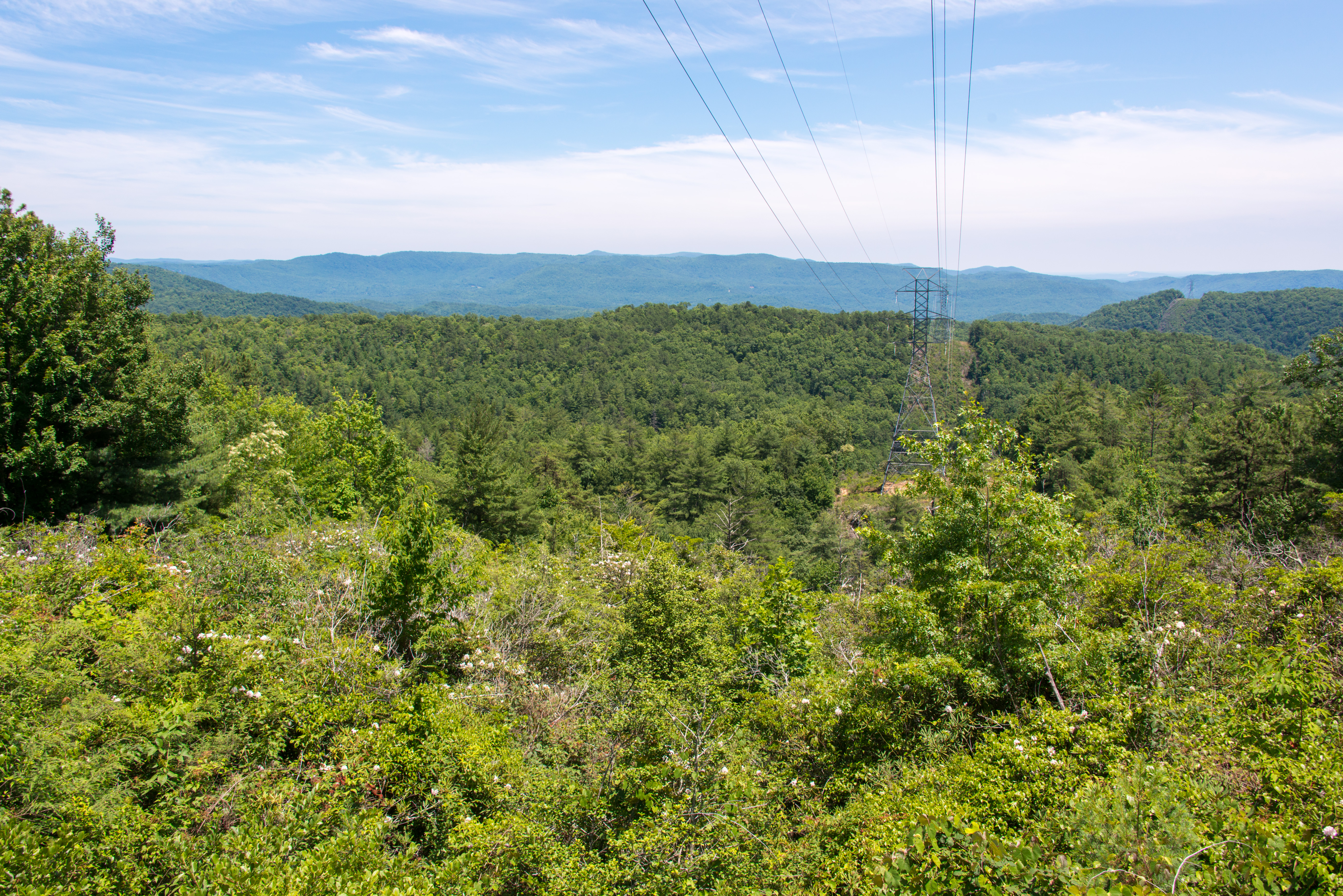 Facing southeast from Grassy Ridge towards South Carolina, in Gorges State Park.